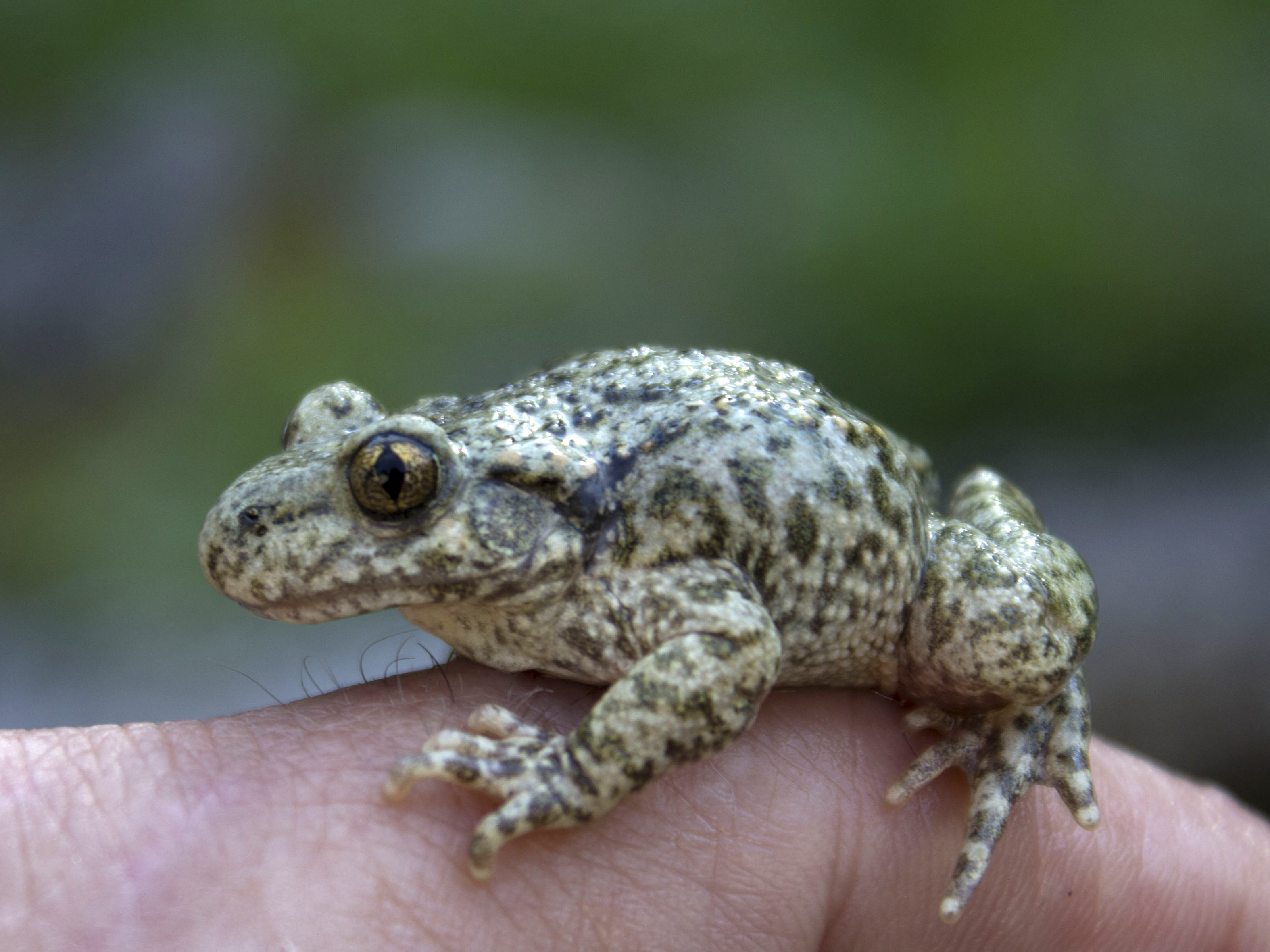 common midwife toad